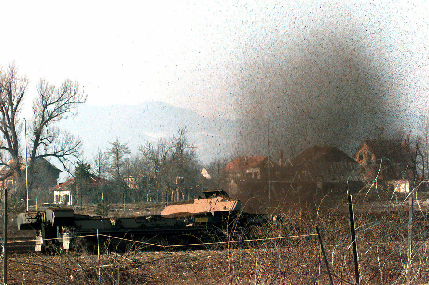 A German Army MaK Keiler Armored Mineclearing Vehicle, attached to the Joint German-French Engineering Brigade, is used to clear a field of possible mines in Butmire, Bosnia-Herzegovina, which will later be used to house NATO troops, during Operation Join.